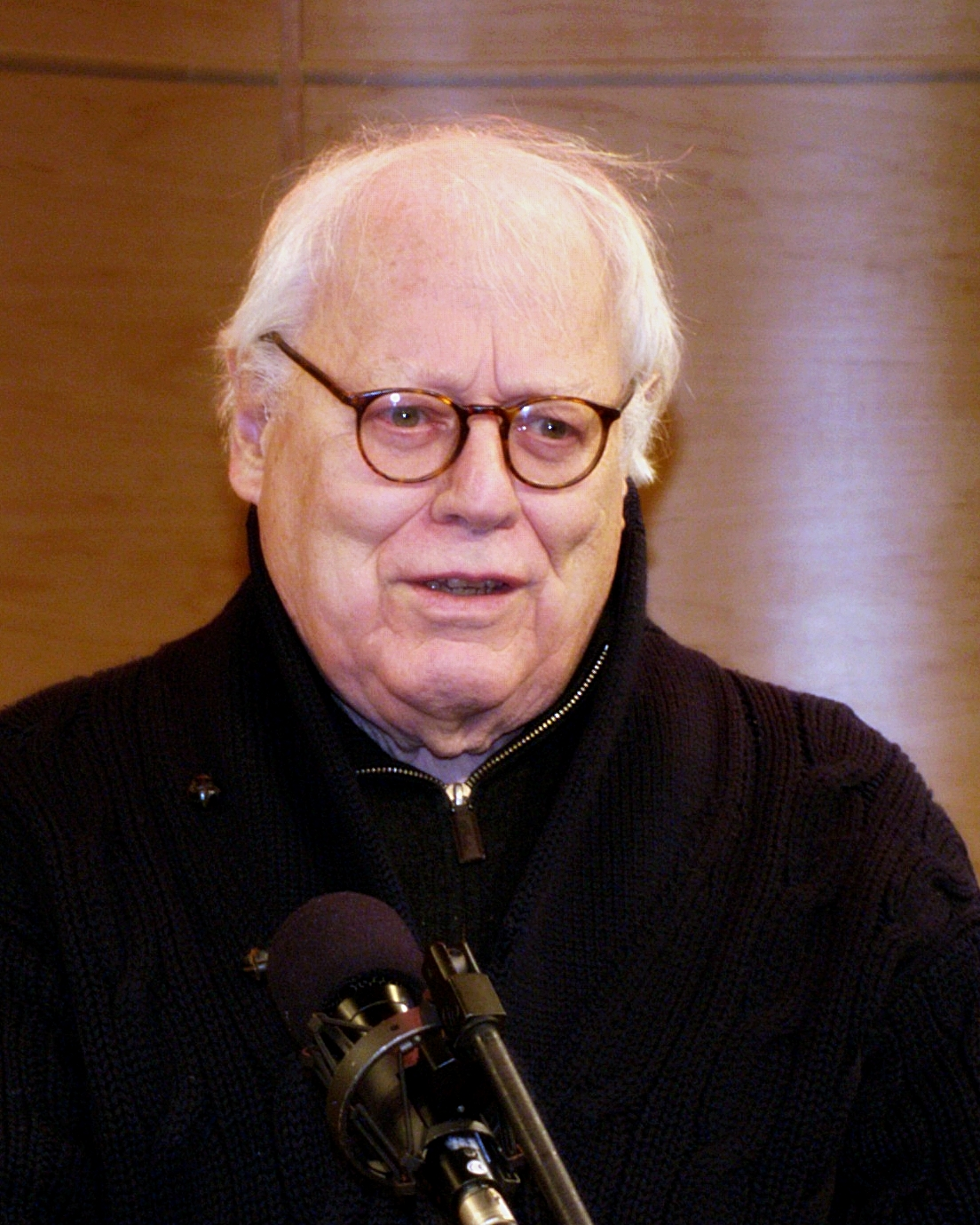 Jason Epstein announcing the 2010 National Book Critics Circle's Ivan Sandrof award for lifetime achievement.